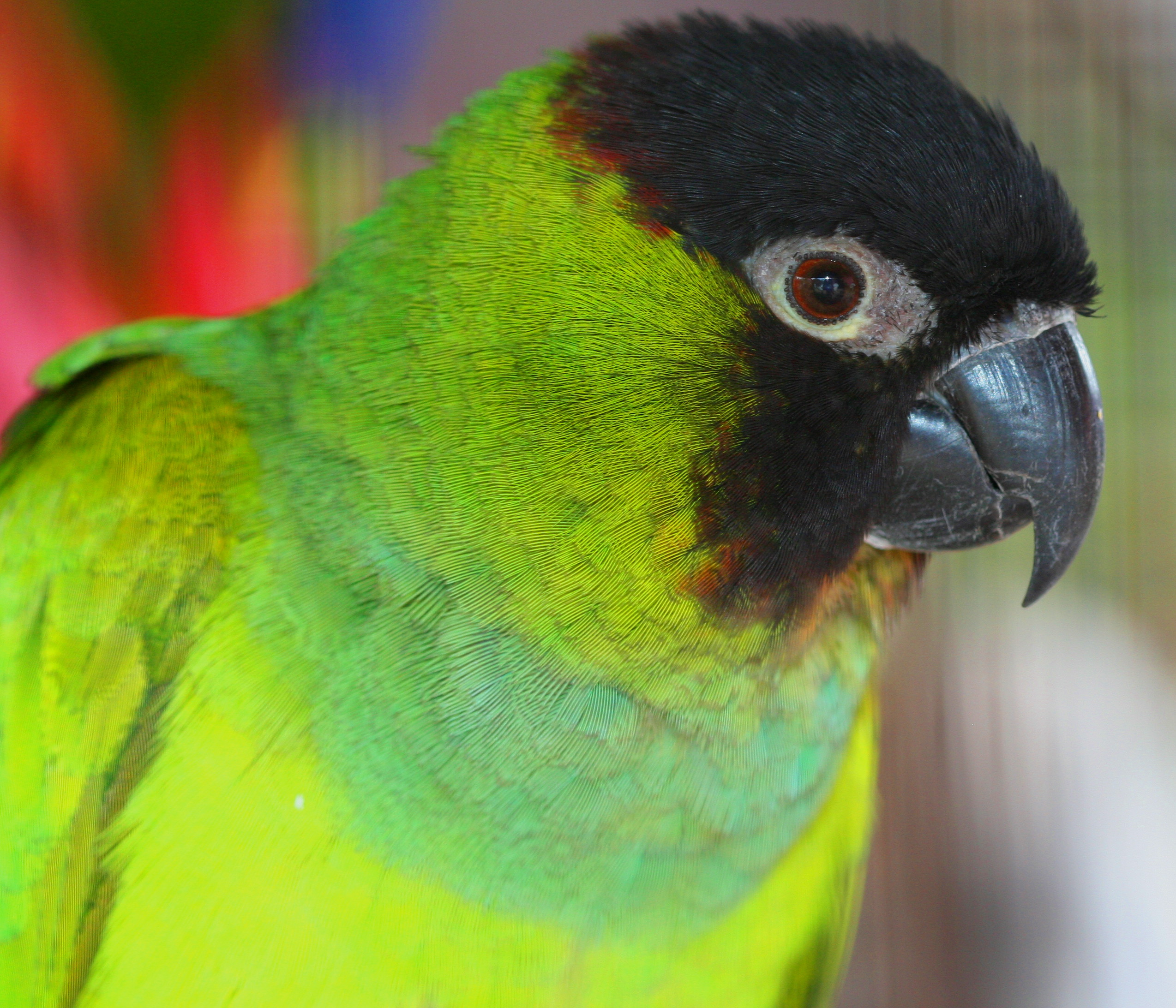 A pet Black-hooded Parakeet (also known as the Nanday Parakeet and Nanday Conure).